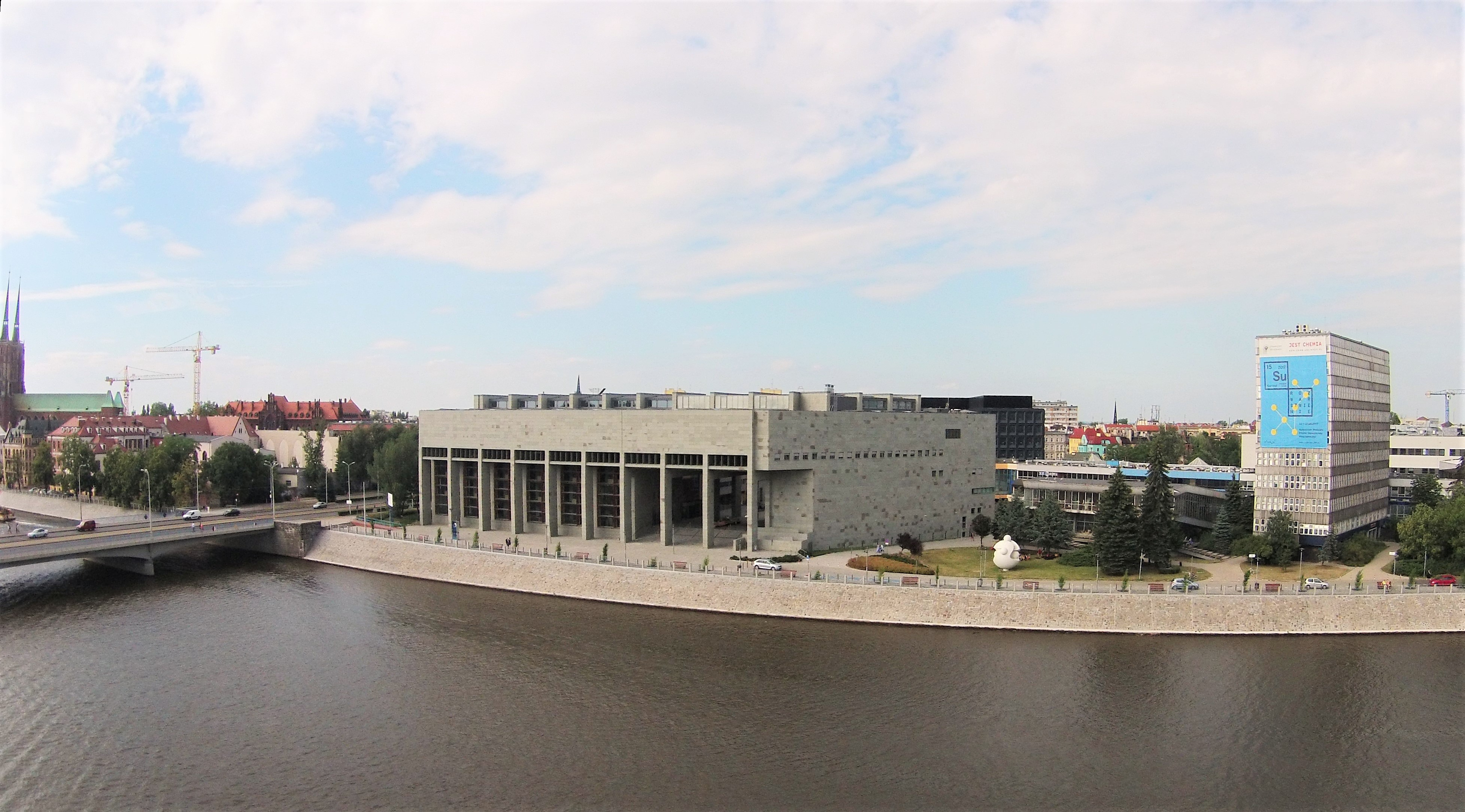 Wrocław University Library